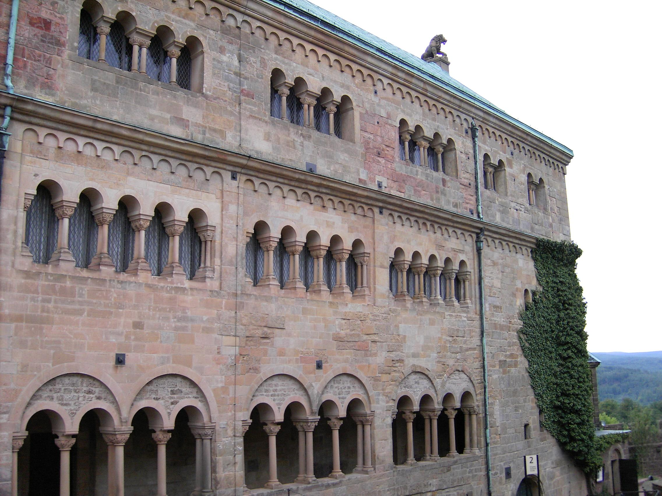 Wartburg, Burghof and Pallas.